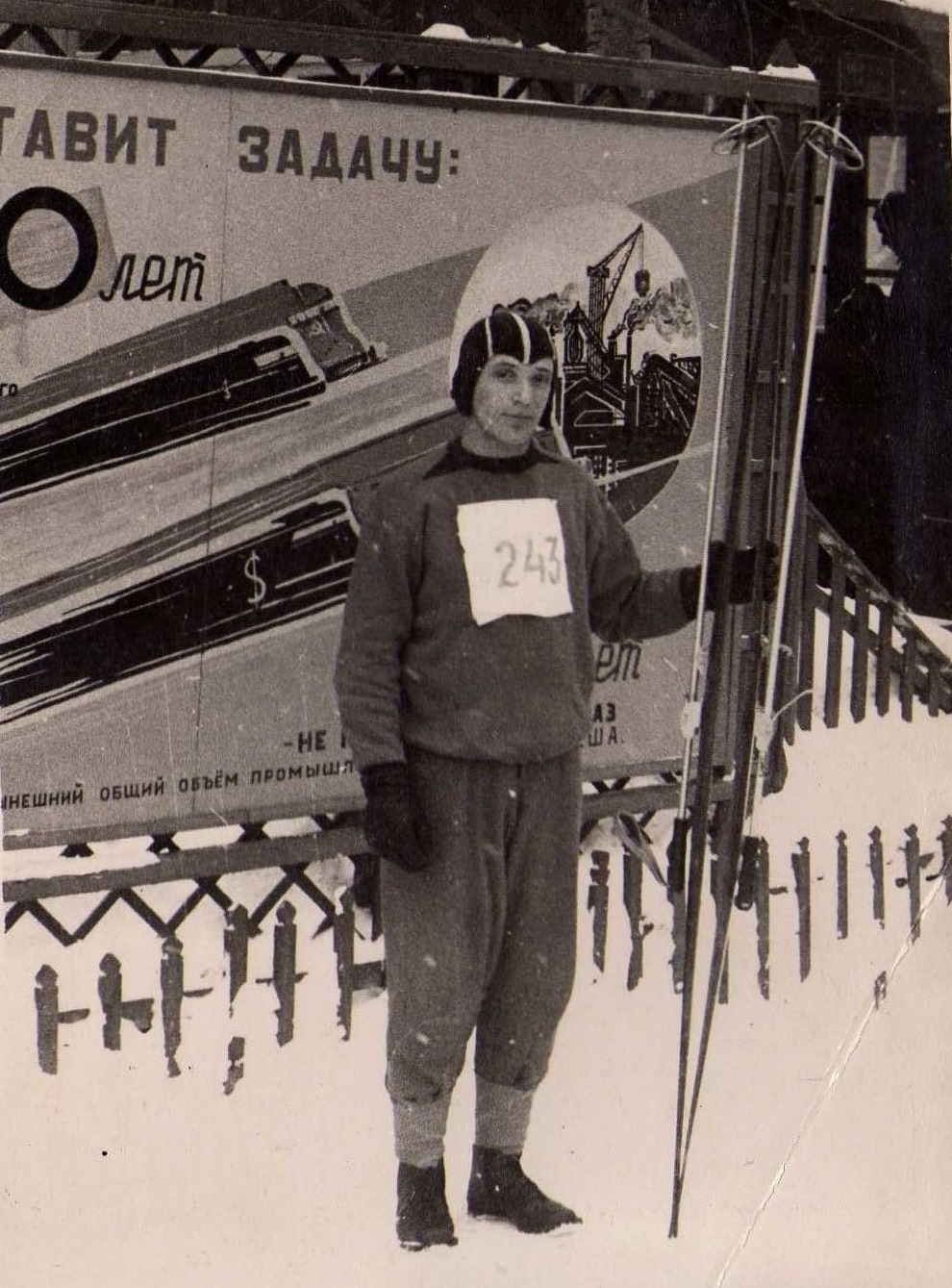 International amateur skiing competitions in the Soviet Union, the athlete of the 1970, the team (special forces of the Russian Army).